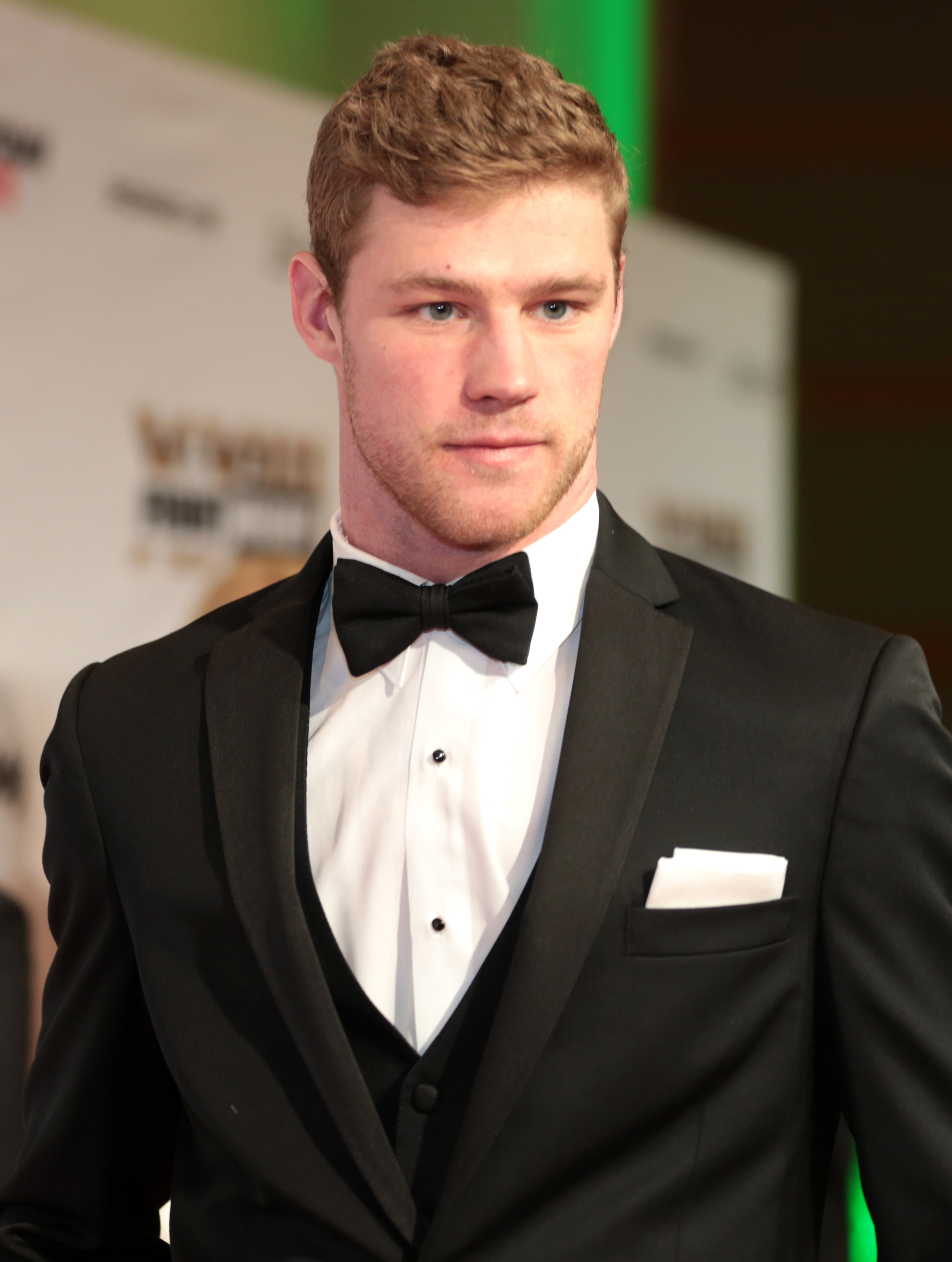 Kevin Cordes at Celebrity Fight Night XXIII in Phoenix, Arizona.